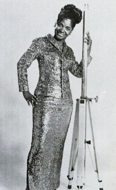 Trade ad for Carla Thomas's single "B-A-B-Y".To better adapt it to his respective Wikipedia article, the ad was cropped and cleaned in a graphics editing program. The original can be viewed at the source below.